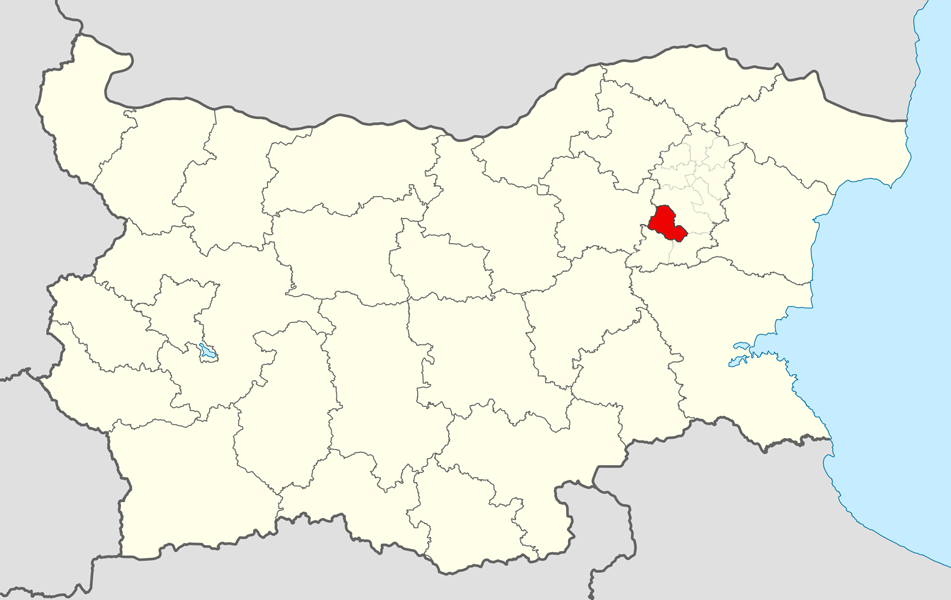 Location map of Veliki Preslav Municipality within Bulgaria and Shumen Province. Equirectangular projection, N/S stretching 130 %. Geographic limits of the map: N: 44.4° N S: 41.1° N W: 22.1° E E: 28.9° E